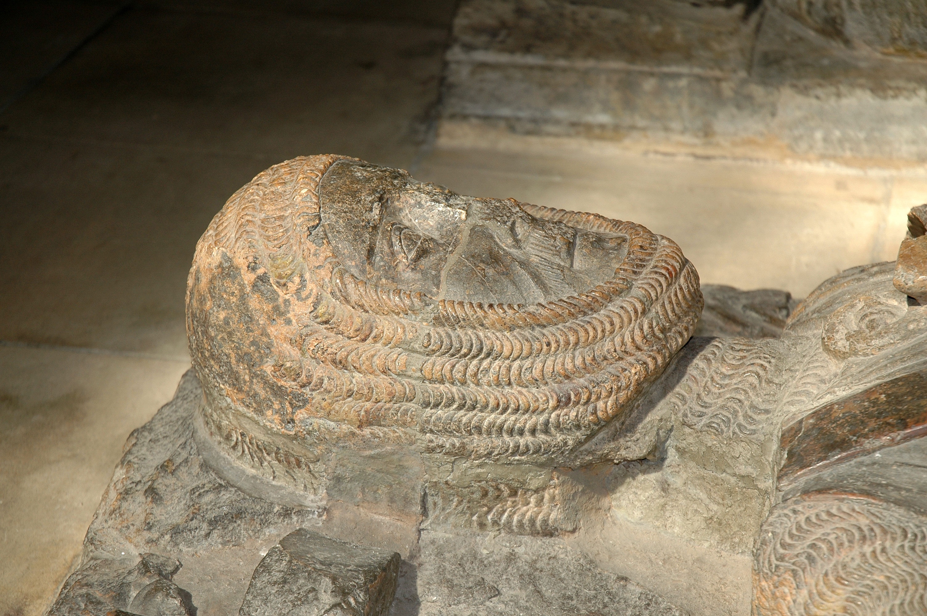 Head of the effigy of William Marshal, 1st Earl of Pembroke, in Temple Church, London